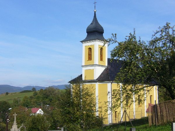 St. Martin church in Vesela by Valašské Meziříčí (Czech republik)